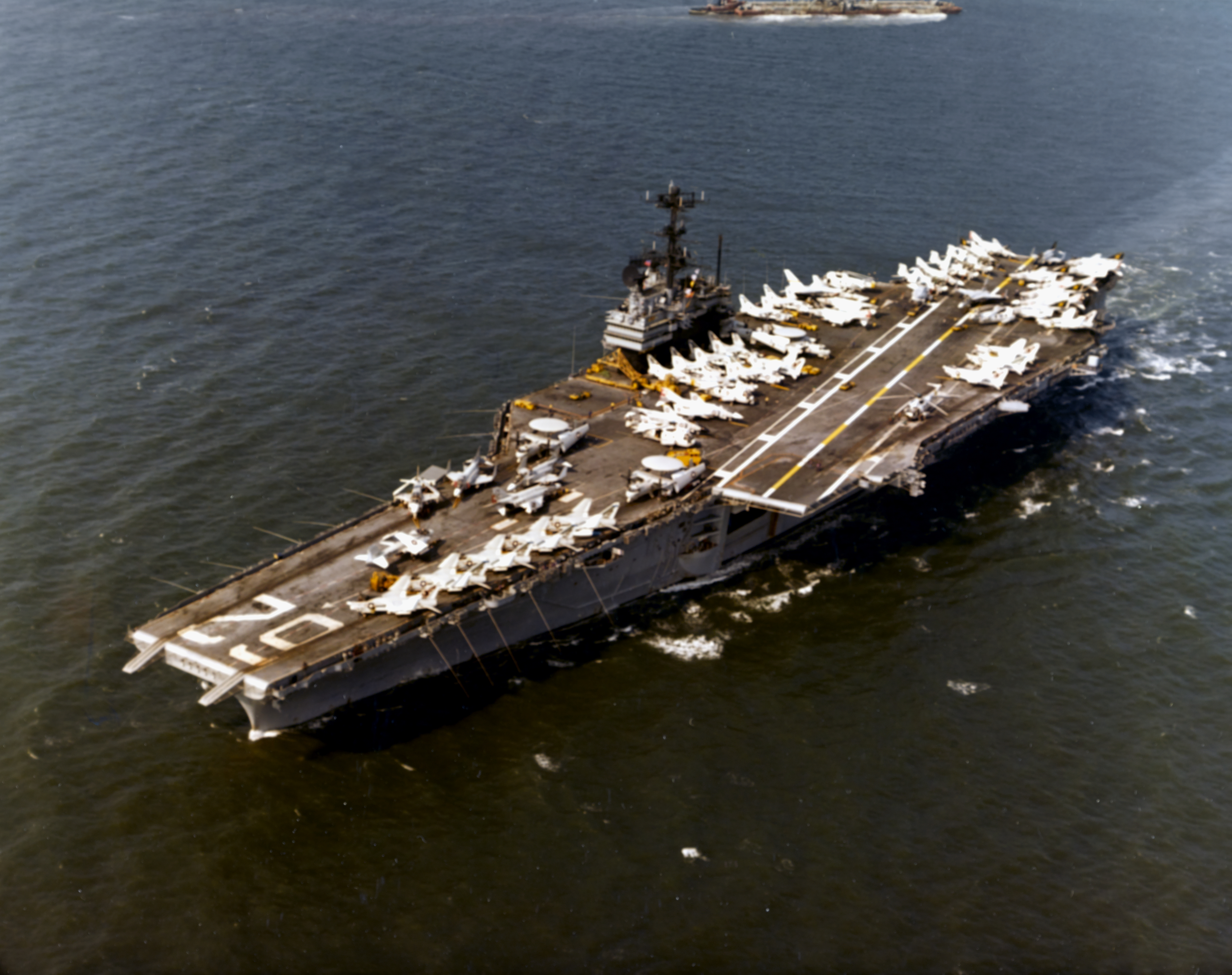 The U.S. Navy aircraft carrier USS Independence (CVA-62) underway. The photo was most probably taken during the deployment from 16 September 1971 to 16 March 1972 as the air wing (Attack Carrier Air Wing 7) is already equipped with LTV A-7 Corsair IIs, but to yet with the Grumman S-2 Tracker.